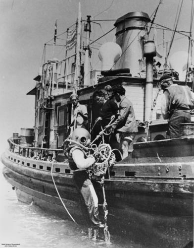 Location: Thursday Island, Australia Date: ca. 1948 Description: Diver in deep sea diving suit and pearling net being assisted into the water by three deck hands from a pearling lugger. View this image at the State Library of Queensland: Information about State Library of Queensland’s collection